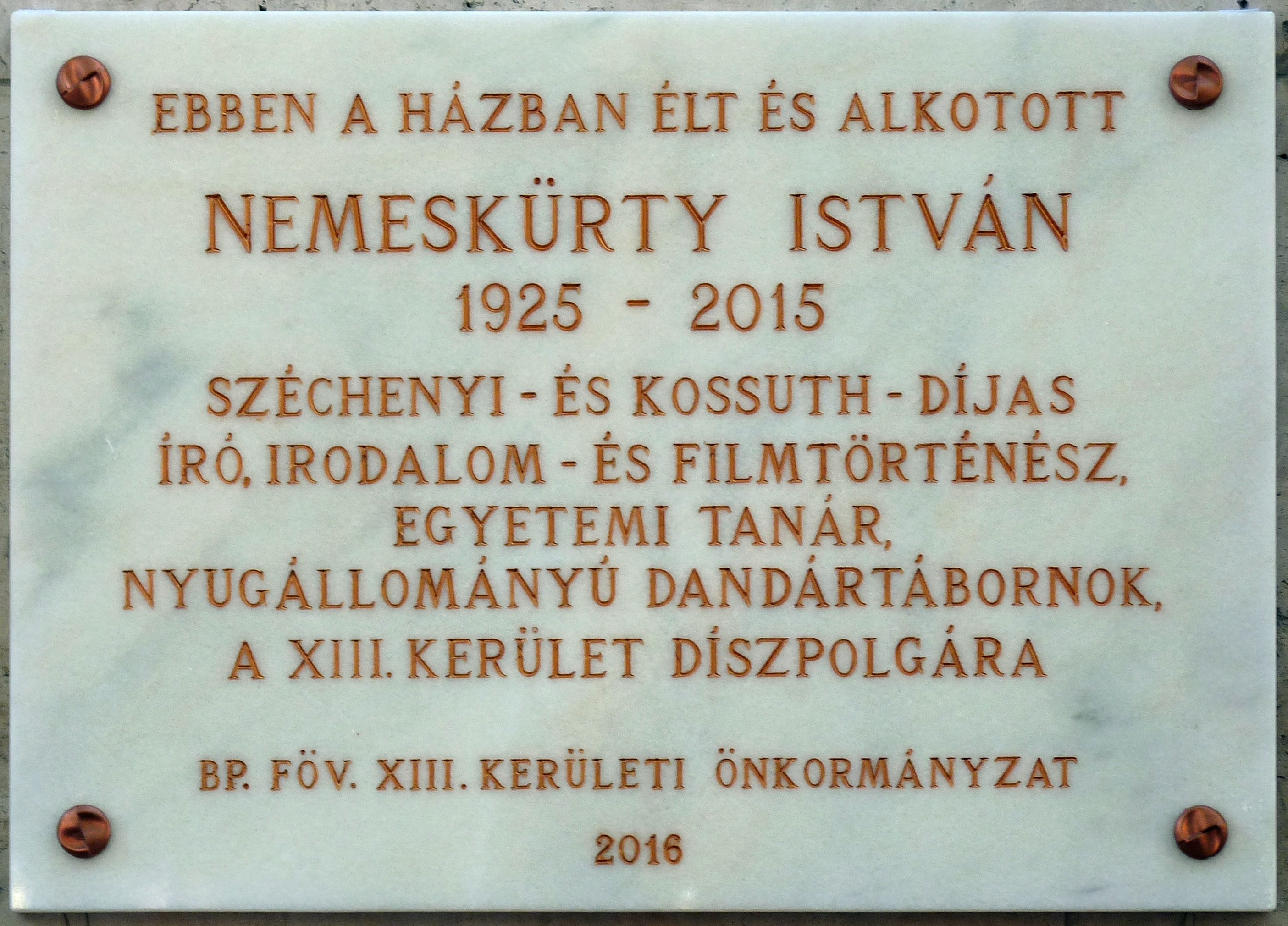 Commemorative plaque to Mr. István Nemeskürty (1925–2015) Hungarian writer, screenwriter, film producer, university professor, literary and film historian, freeman of the 13th district of Budapest. It was affixed to the front of his former home in Budapest, and unveiled on June 1, 2016. (Budapest, District XIII, Pozsonyi Street Nr 32)